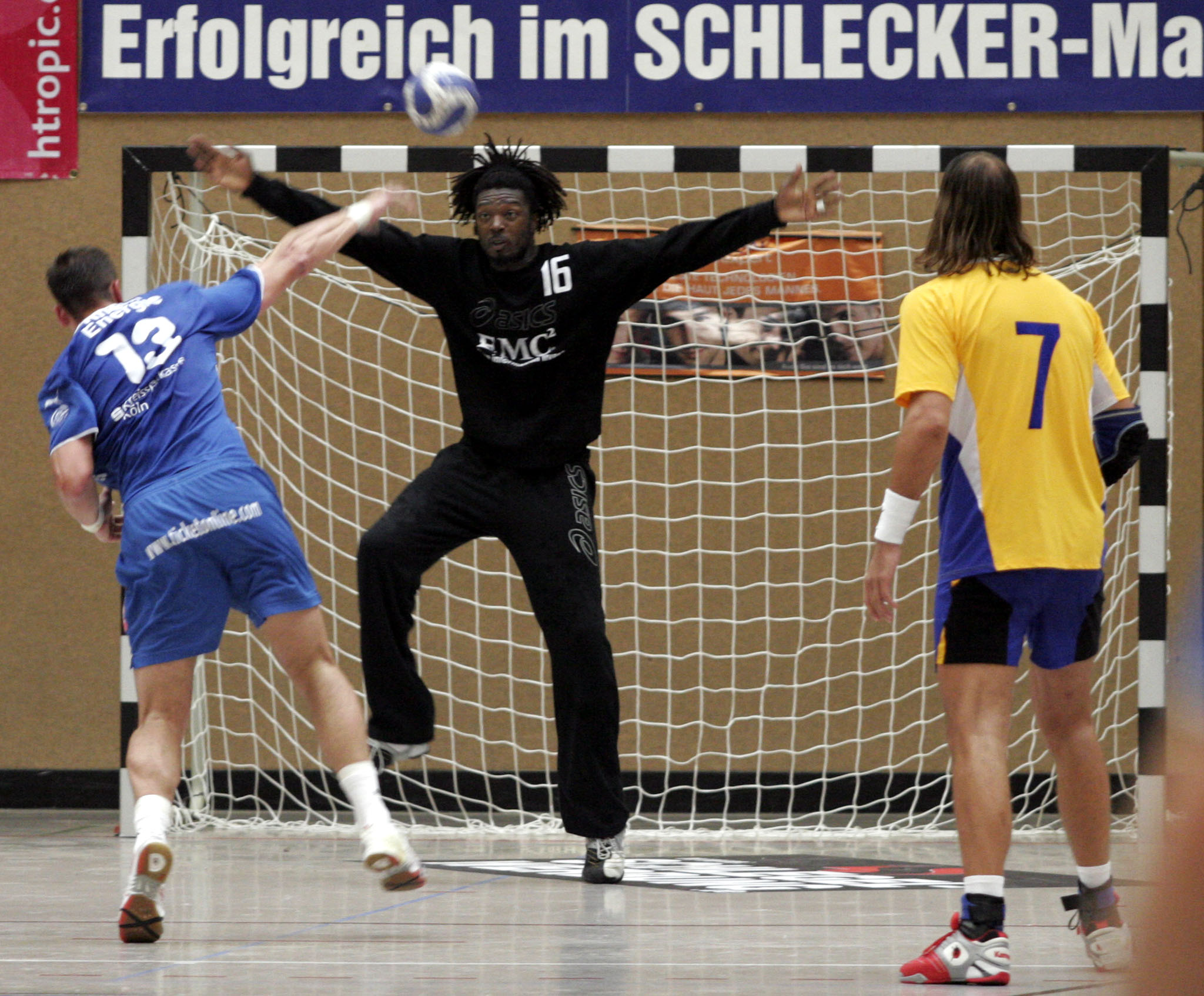 Daouda Karaboué (#16), French handball player from Montpellier HB, during the Schlecker Cup 2007 in Ehingen (Germany). Momir Ilic (#13) VfL Gummersbach and Mladen Bojinovic (#7) Montpellier HB